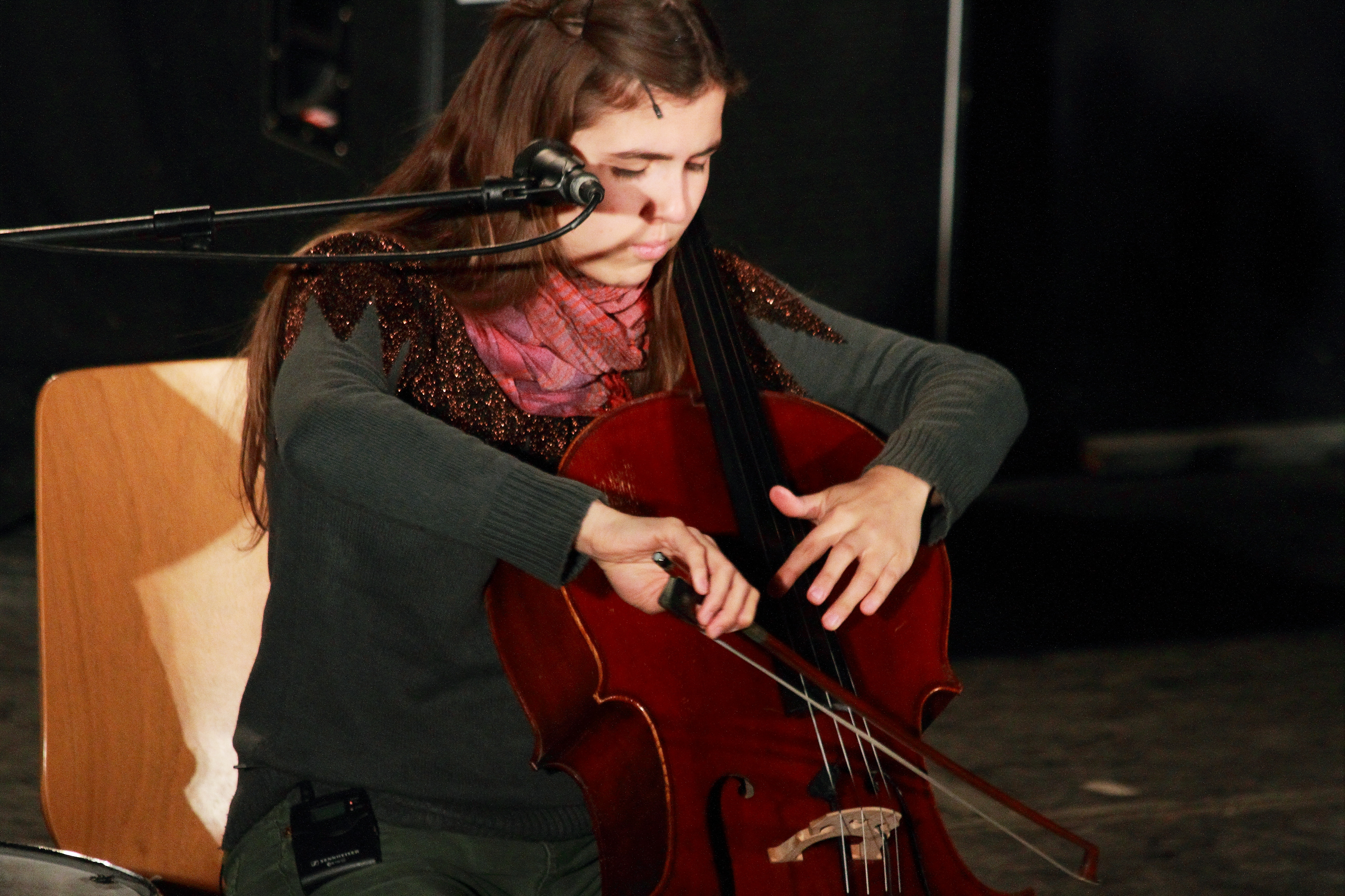 Dom La Nena at INNtöne Jazzfestival, Austria 2016.